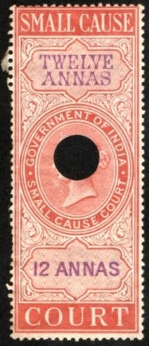 India 1868 12A Small Cause Court Fees Revenue Stamp